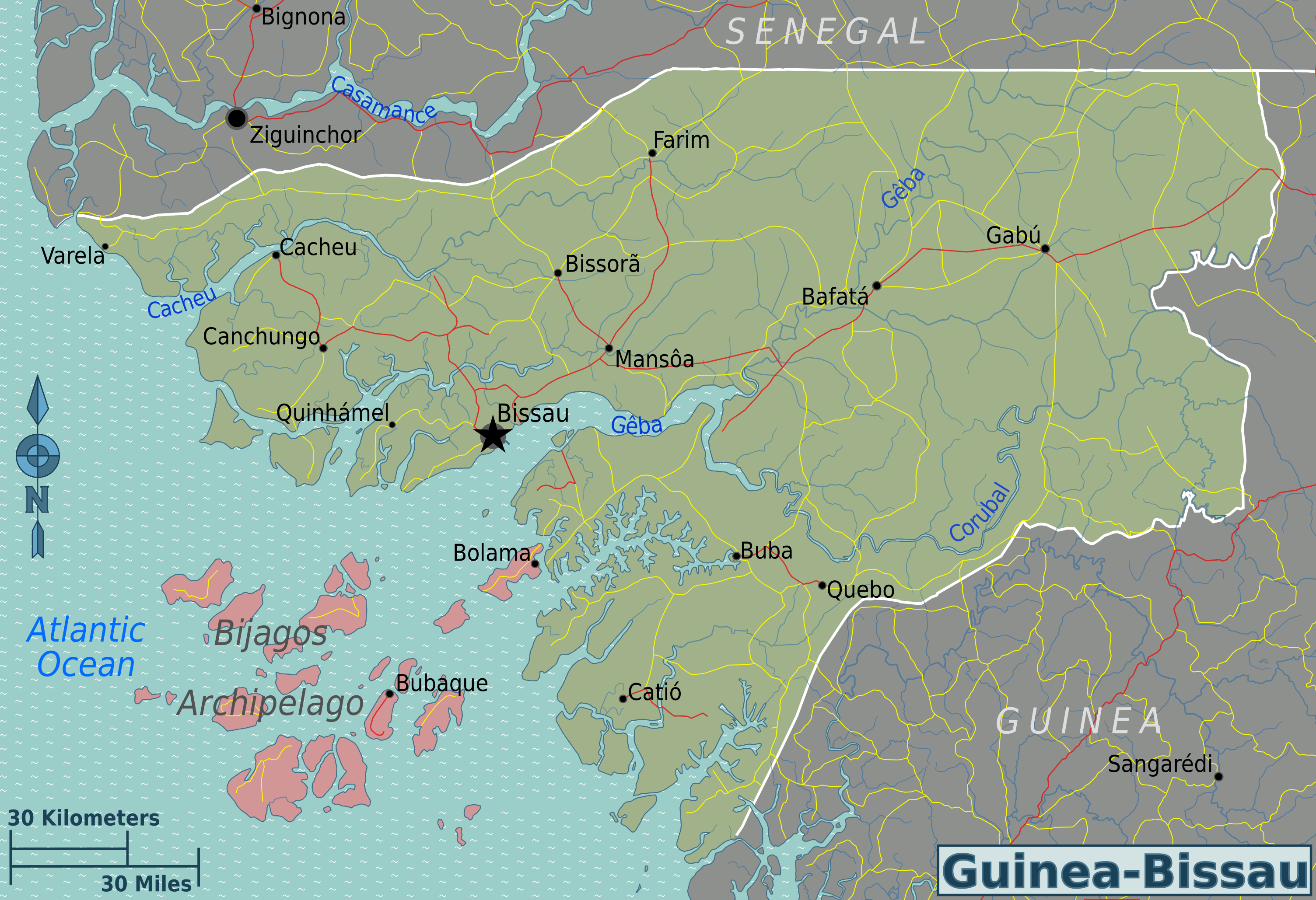 Map of Guinea-Bissau.